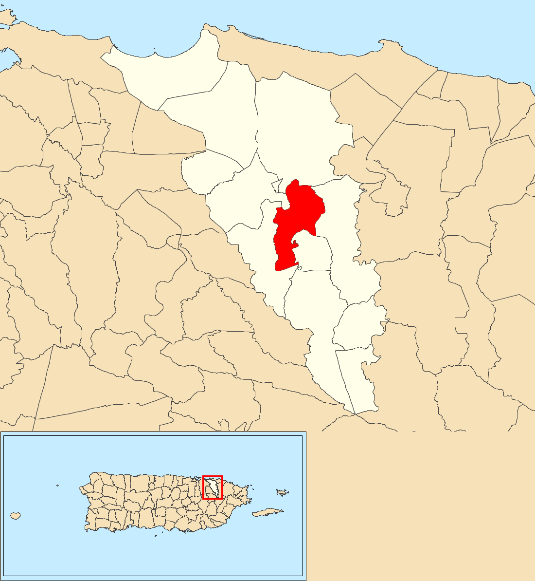 Trujillo Bajo, Carolina, Puerto Rico locator map